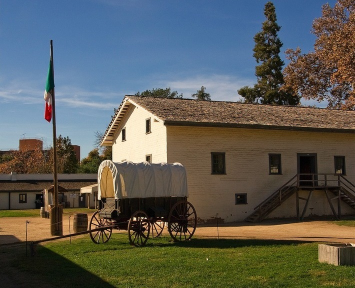 Sutter's Fort in 2009